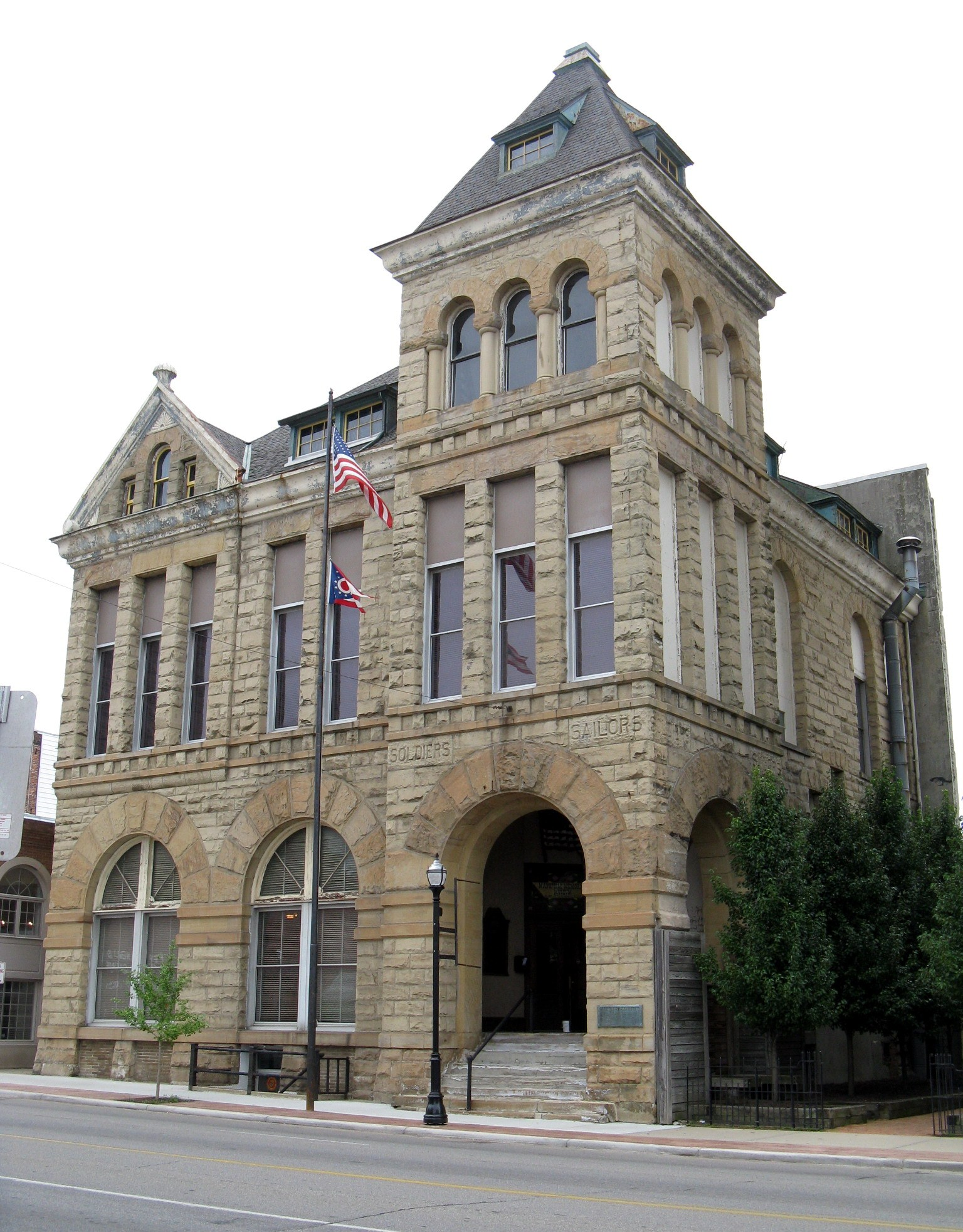 The historic Soldiers & Sailors Memorial Hall in Mansfield Ohio, built in 1888. It now houses a museum and is listed on the National Register of Historic Places.